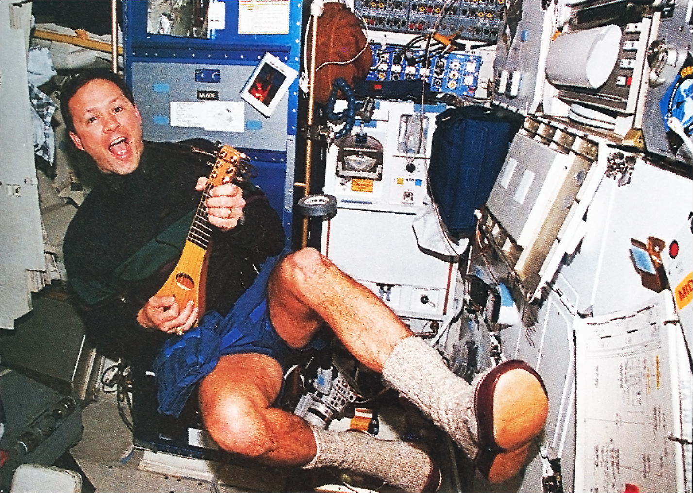 Pierre Thuot with mini-guitar onboard NASA space shuttle